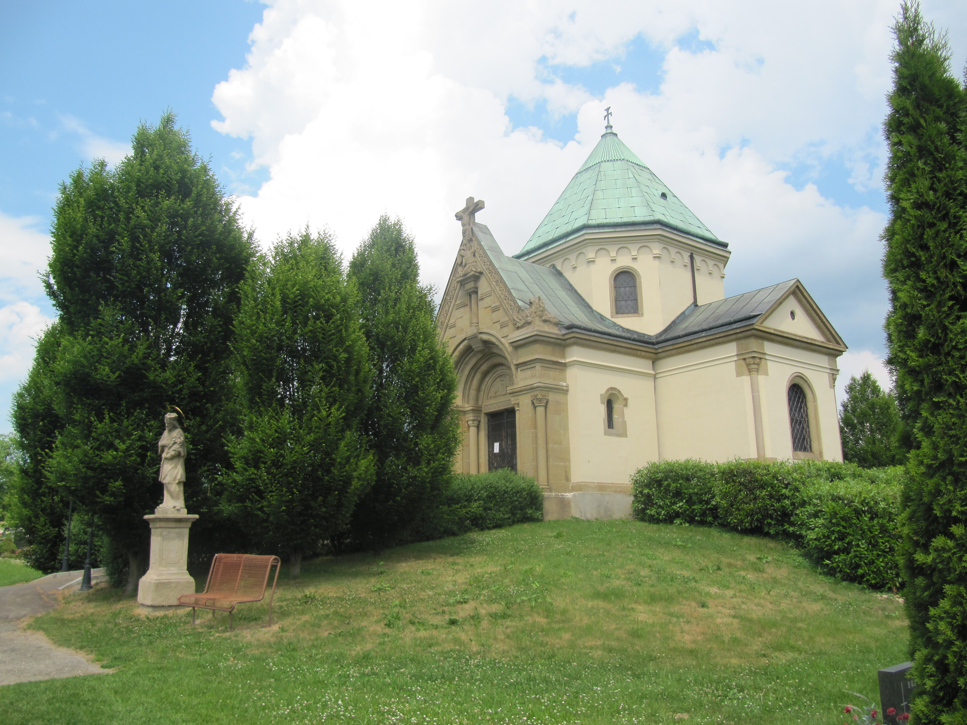 Zlín, part Kostelec, Czech Republic. The cemetery, the tomb of the count, and the statue of St. John of Nepomuk.